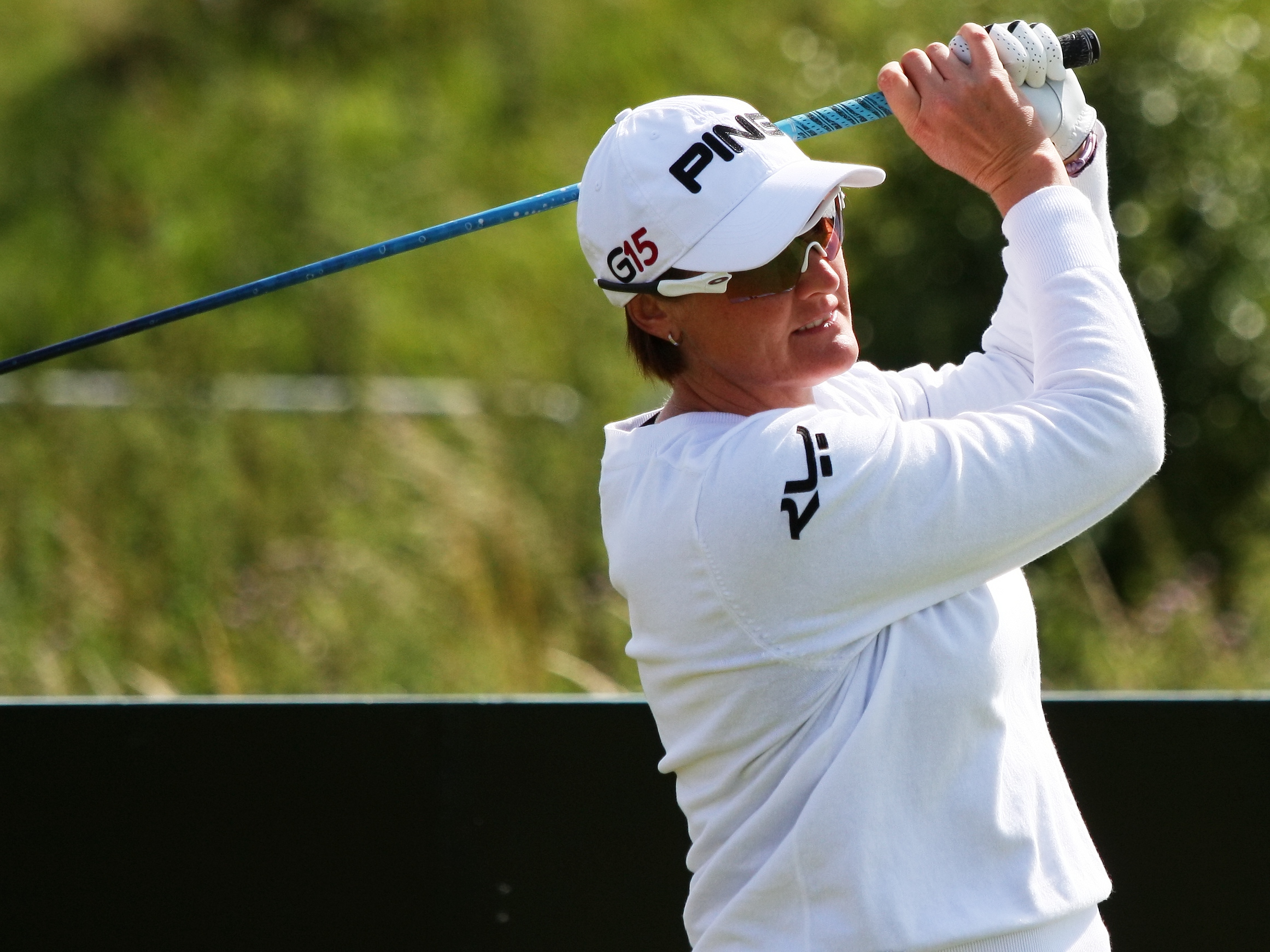 SOUTHPORT, UNITED KINGDOM - JULY 28: Maria Hjorth of Sweden tees off the 10th hole during final practice round before 2010 Ricoh Women's British Open held at Royal Birkdale on July 28, 2010 in Southport, England. (Photo by Wojciech Migda)